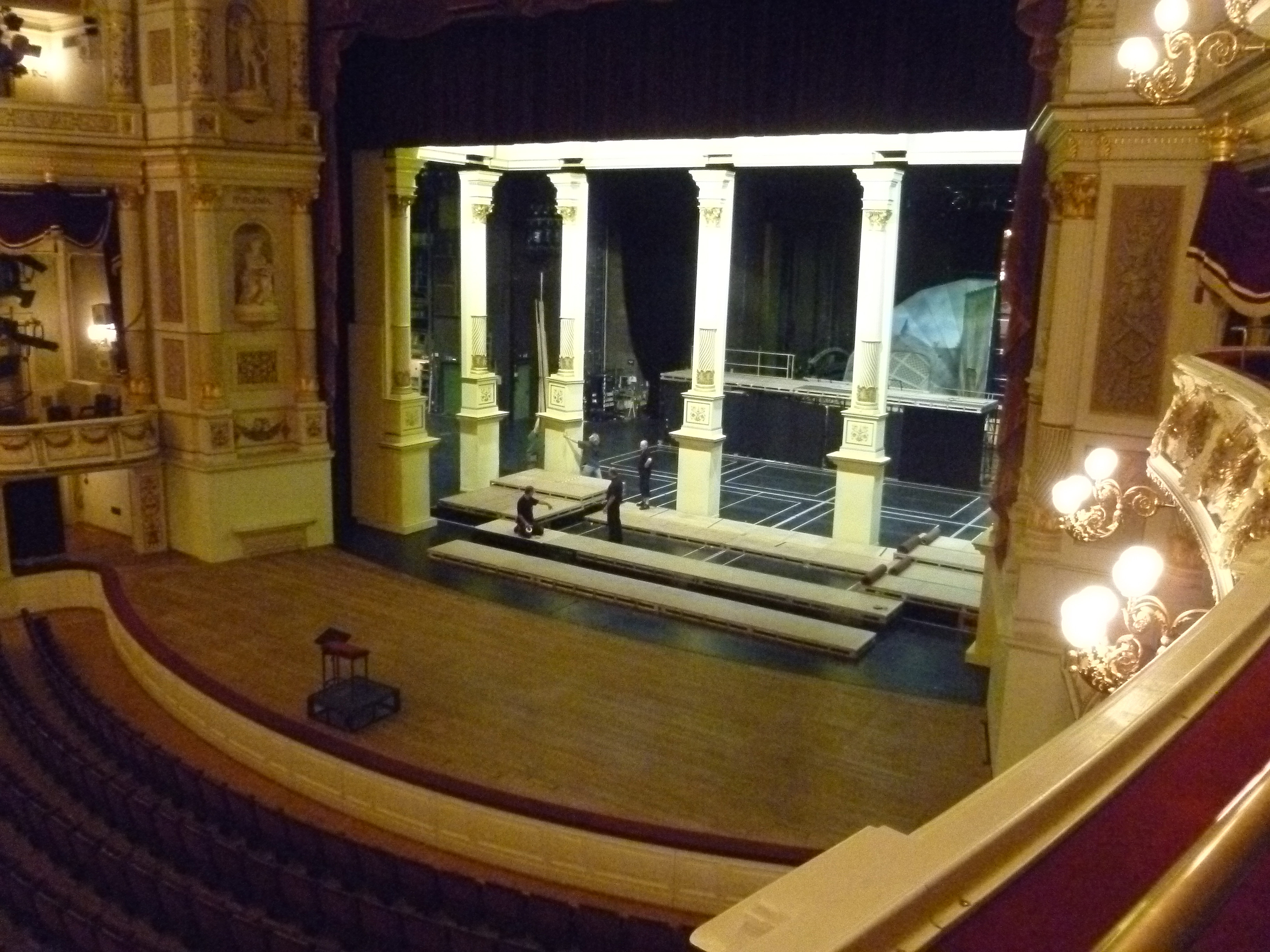 Stage of the Semperoper, Dresden, Germany